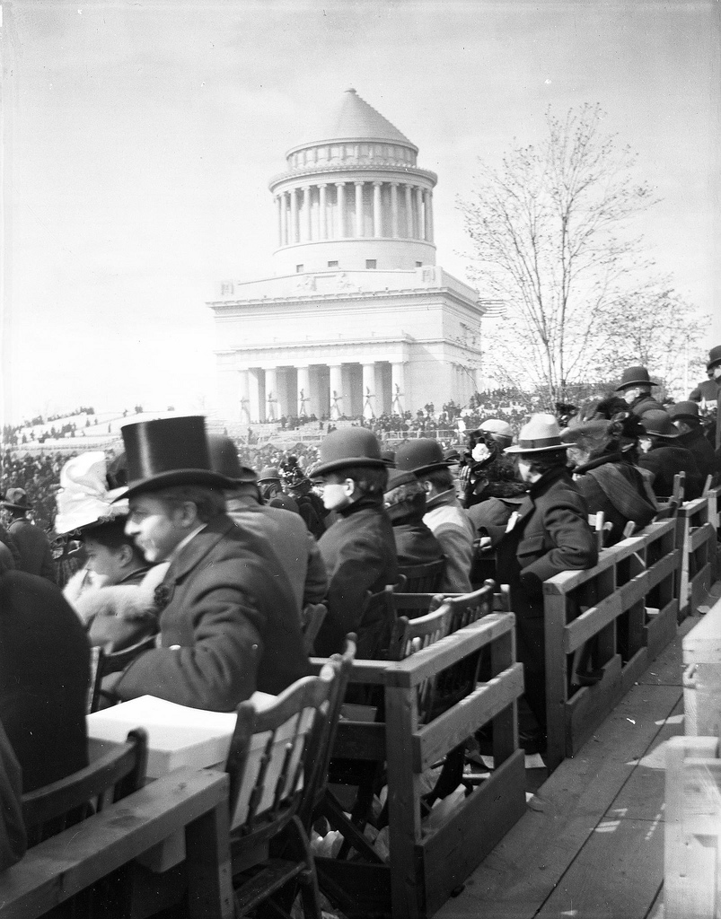 The inauguration of Grant's Tomb.